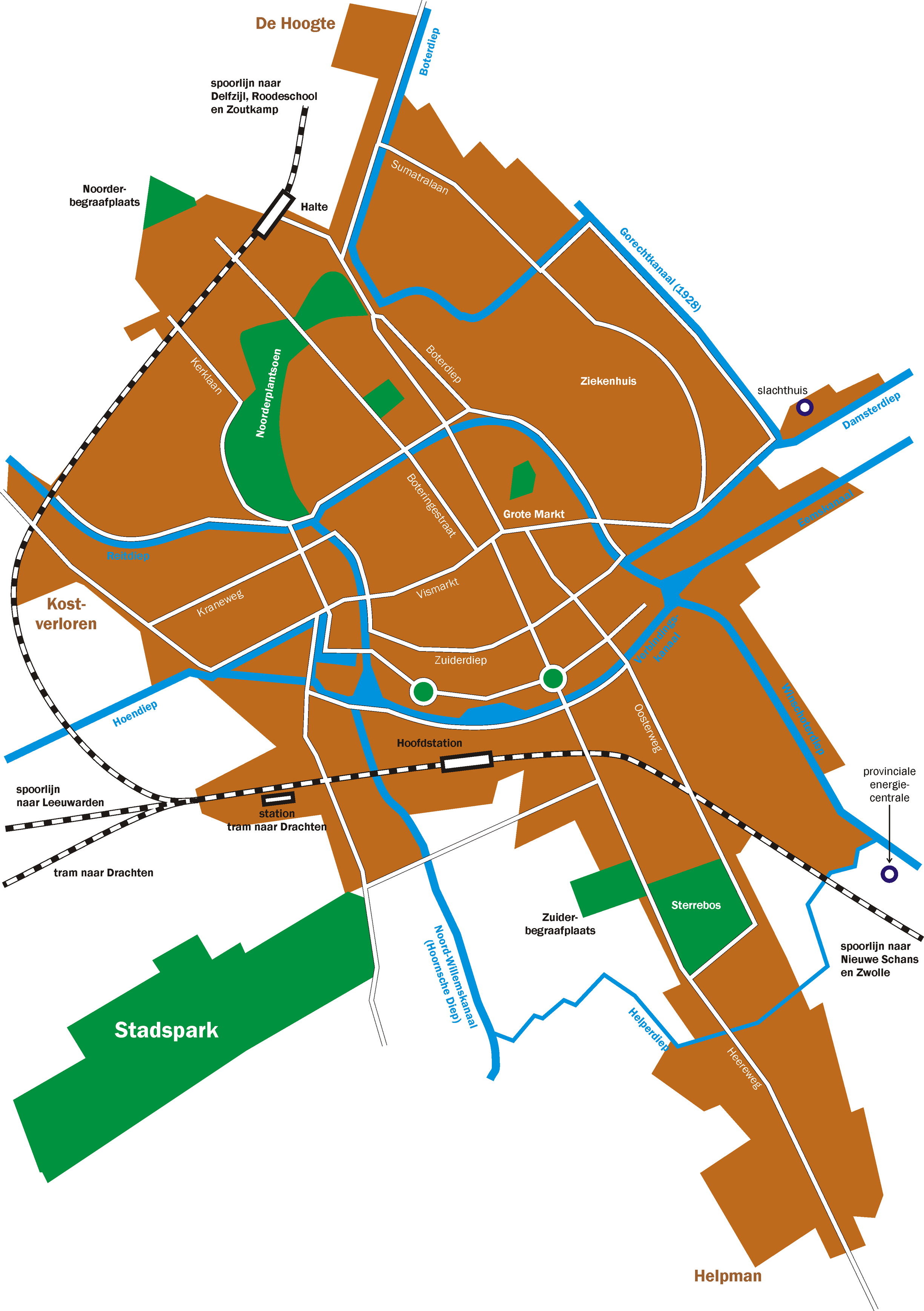 Map of the city of Groningen in 1925, based on the map by S.J. Bouma available through the University Library of Groningen University at